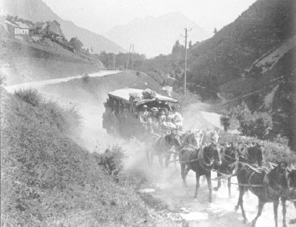 Stagecoach downhill pulled by eight horses in the dust. Travellers have sat next the coach. There are luggage on the roof. The path winds through a mountainous landscape. On the bottom sides are electric poles. Some houses are located on a mountainside.